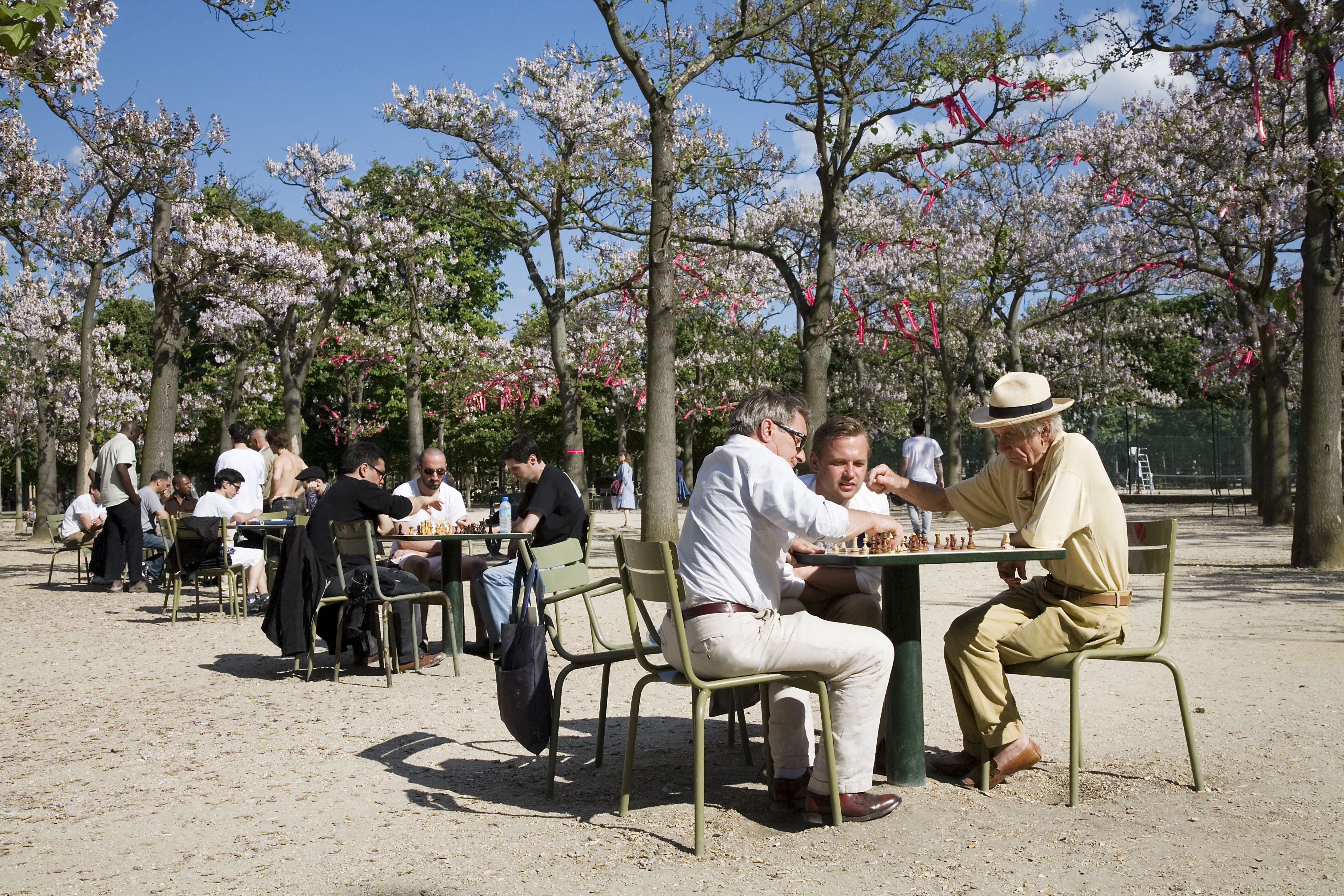 Old retired men playing chess at the Jardins du Luxembourg, Paris